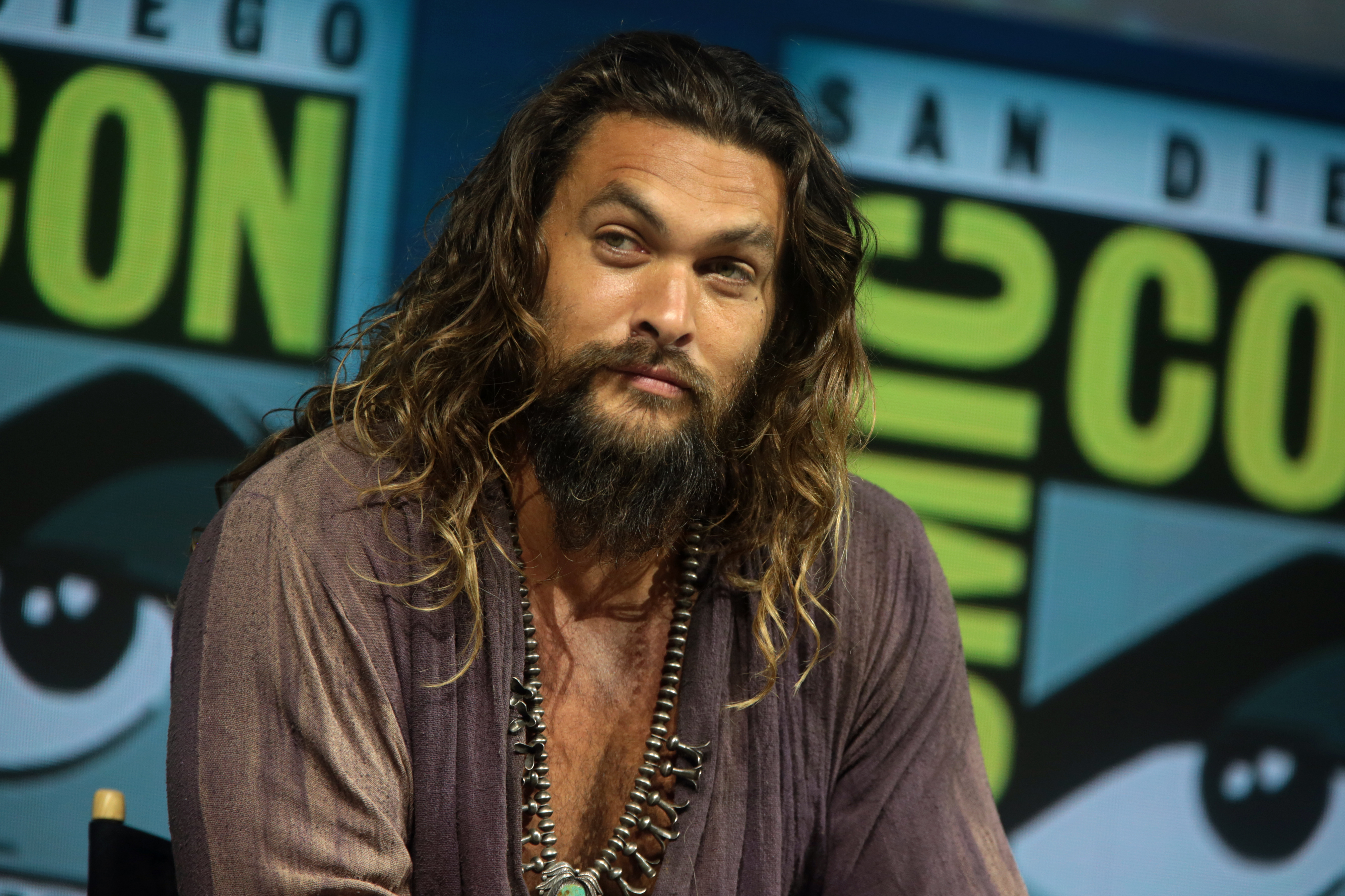 Jason Momoa speaking at the 2018 San Diego Comic Con International, for "Aquaman", at the San Diego Convention Center in San Diego, California.